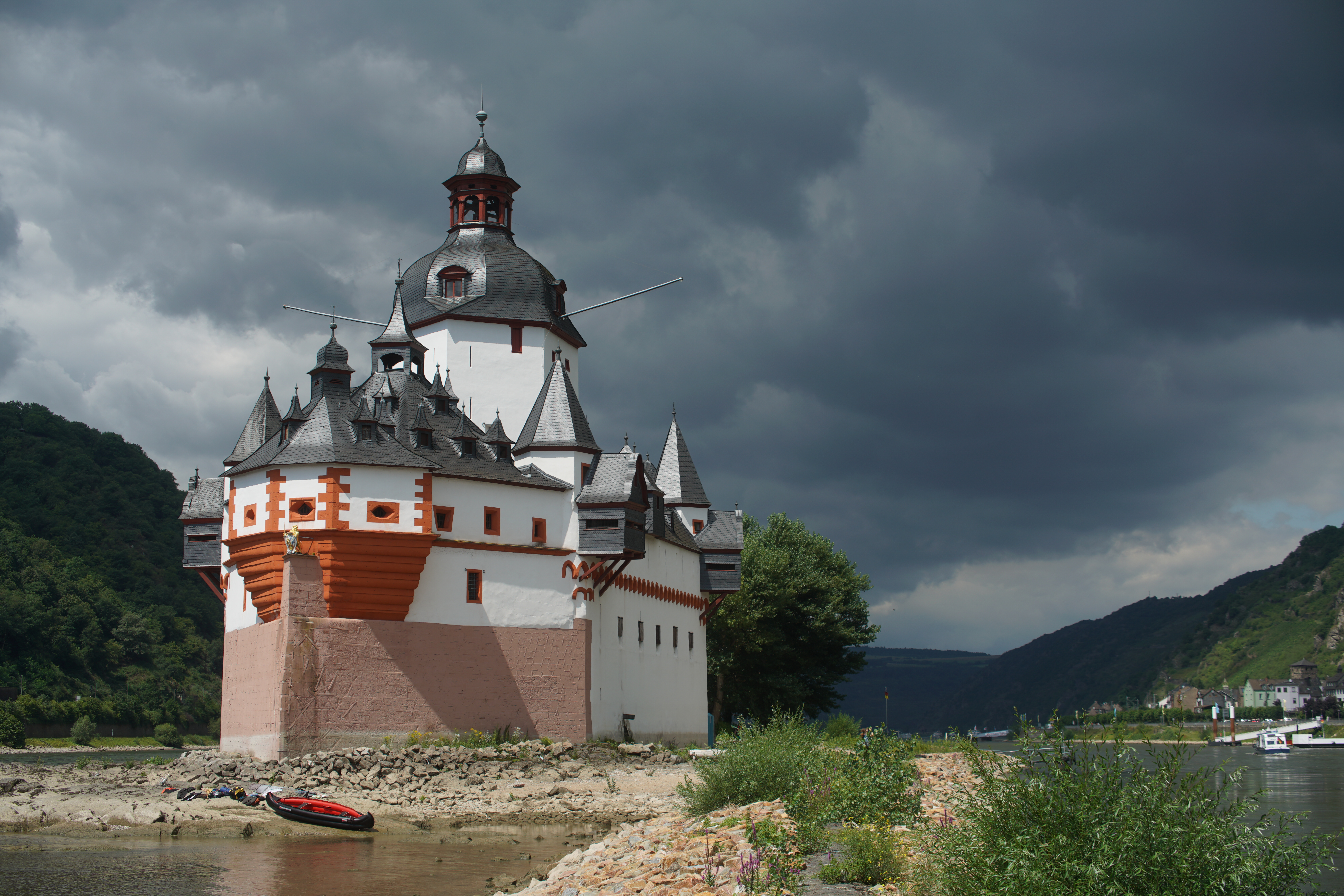 Pfalzgrafenstein Castle (also referred to as "Pfalz bei Kaub") is placed on a small island in the Rhine river and belongs to the nearby town of Kaub. It is part of the "Upper Middle Rhine Valley" section, UNESCO World Heritage site since 2002. Photo ID: 2017-07-26 99 JB 8596 WW45 (25pz)